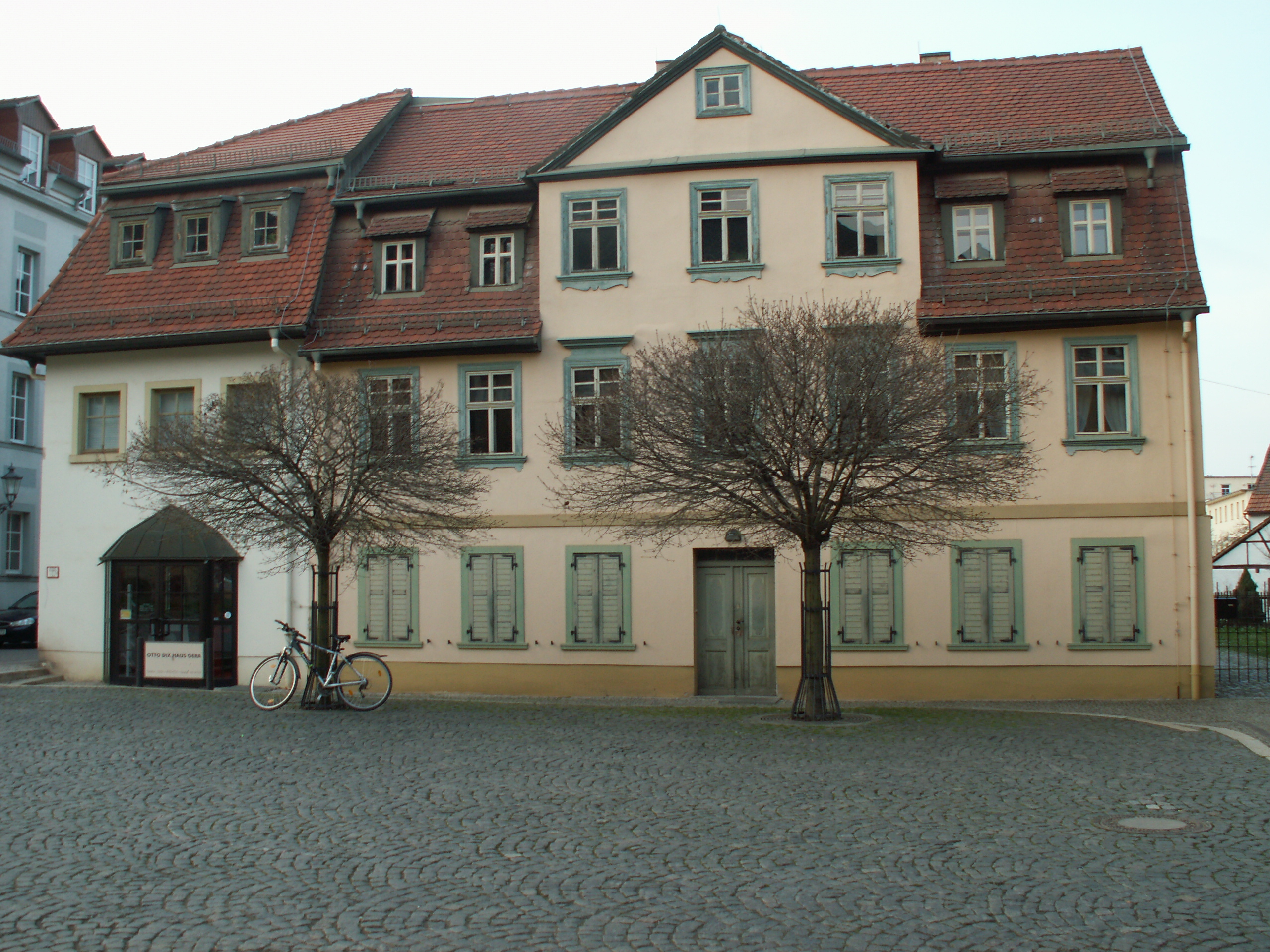 Otto-Dix-Haus at Mohrenplatz in Untermhaus, Gera, Germany, in the year 2007